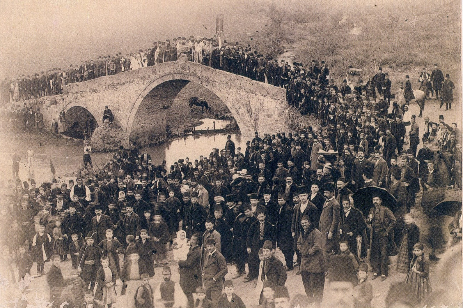 Stavros Bridge in Veria, Epiphany, 1908.